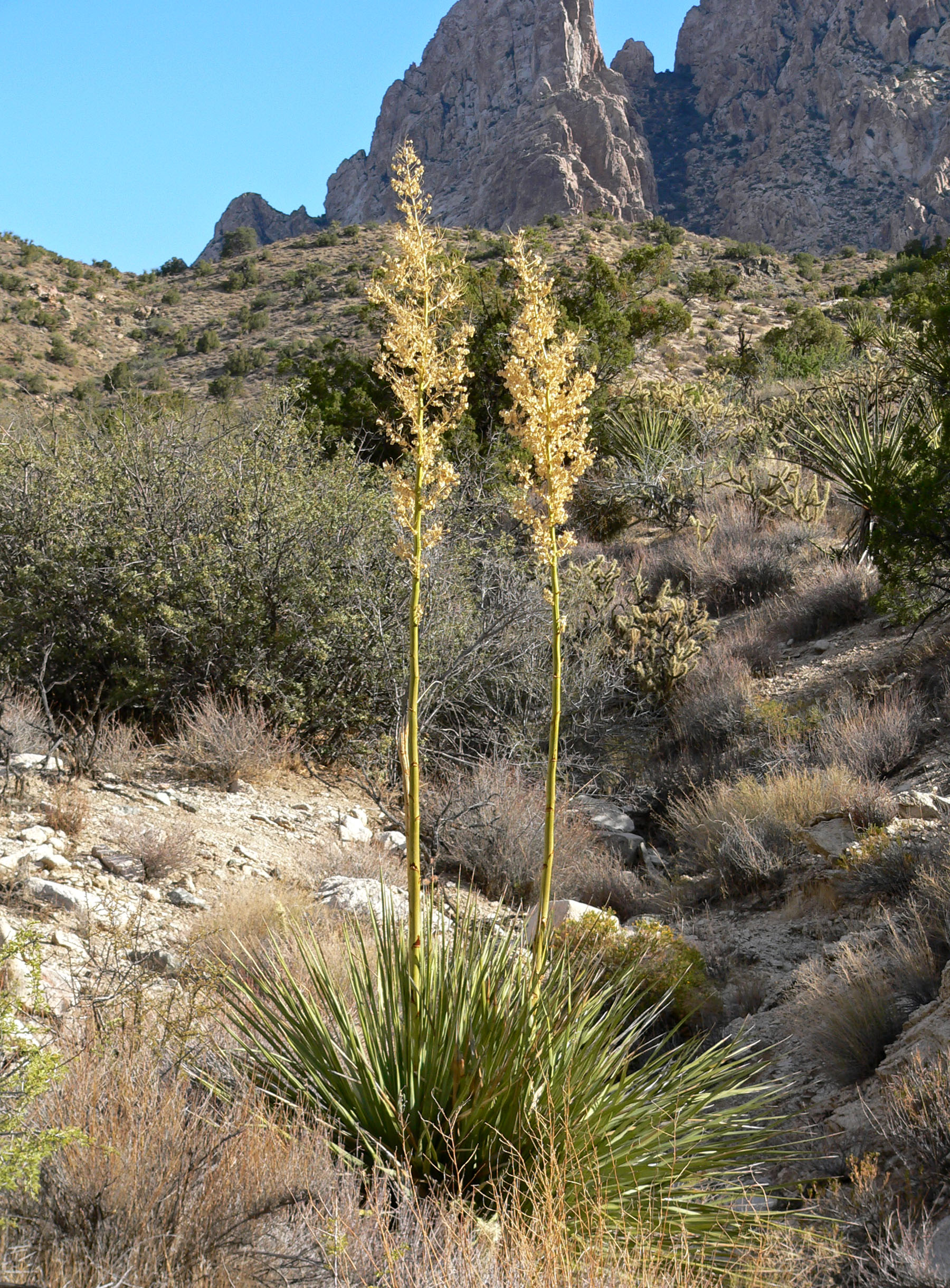 Nolina bigelovii near Christmas Tree Pass, Newberry Mountains, southern Nevada (elev. about 1000 m)